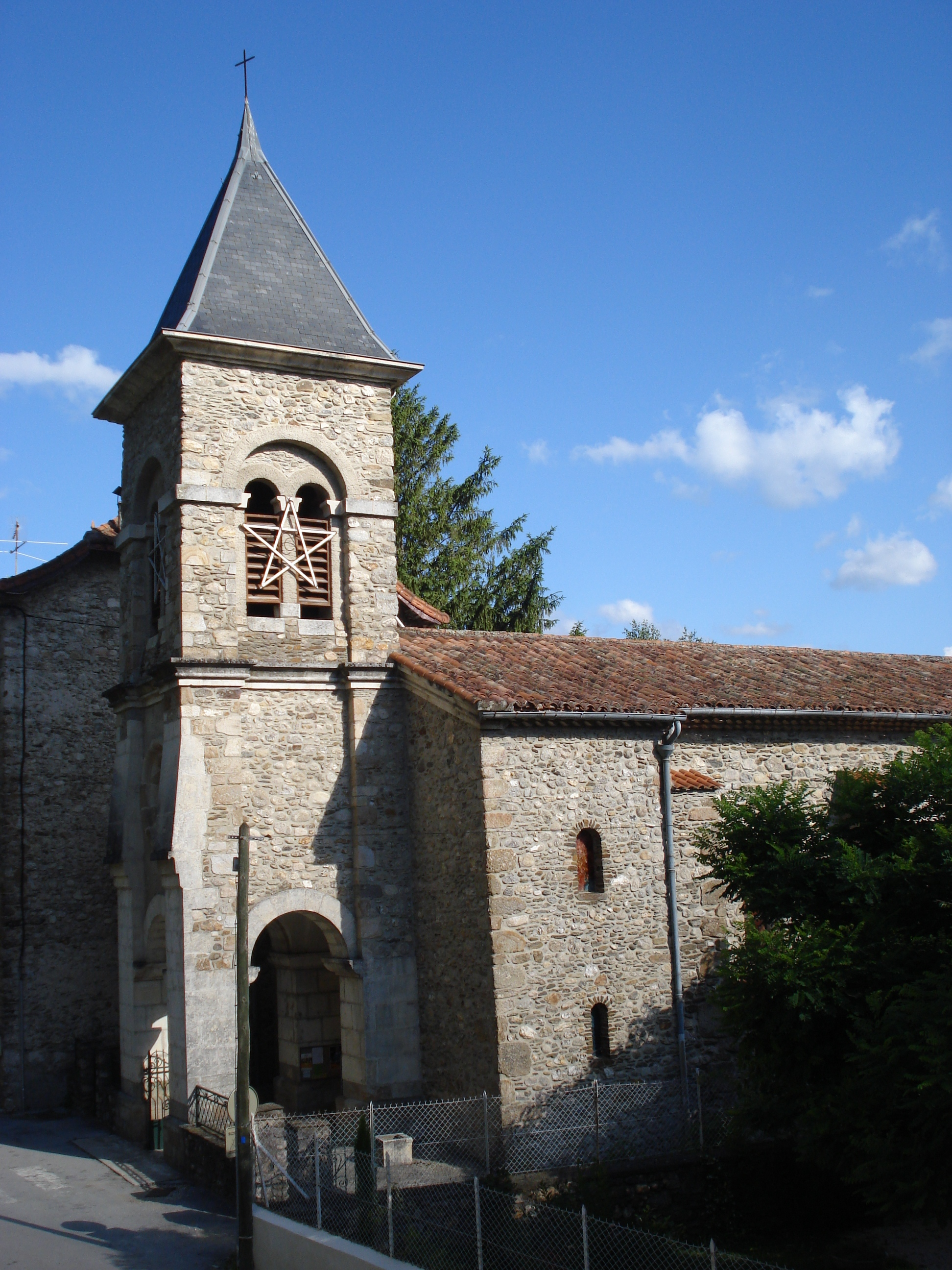 Church of Chamborigaud (Gard, Fr).